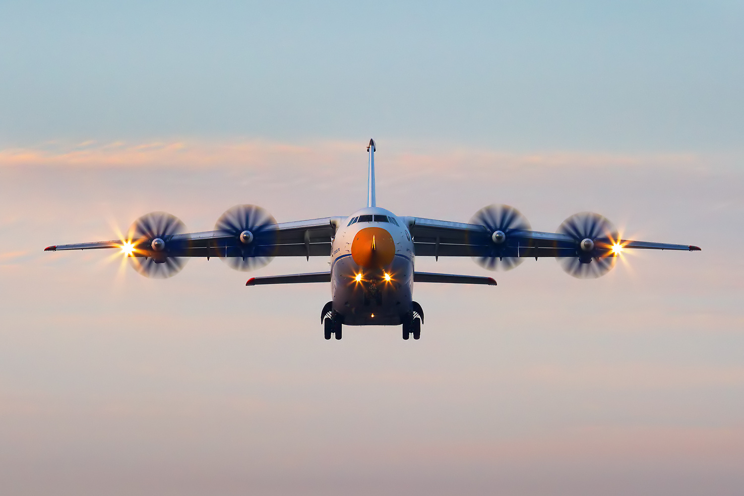 Antonov An-70 transport aircraft